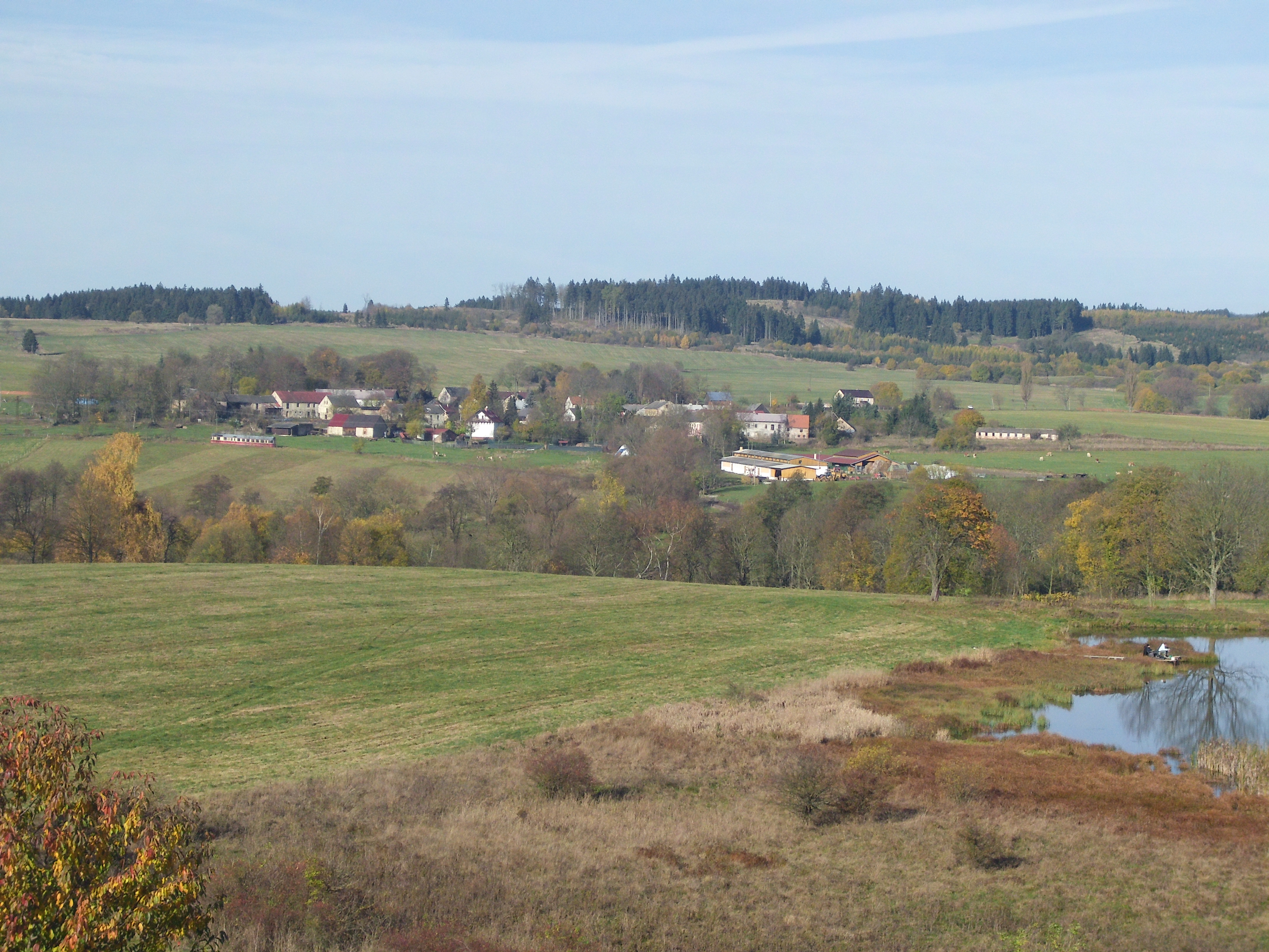 Panorama of Těšetice, as seen from a "665 m" hill to the South-East of the village. At the left, you can also see the railcar M286.1008 of KŽC Doprava on the way from Bochov to Protivec.